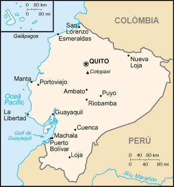 Map of Ecuador in Catalan.